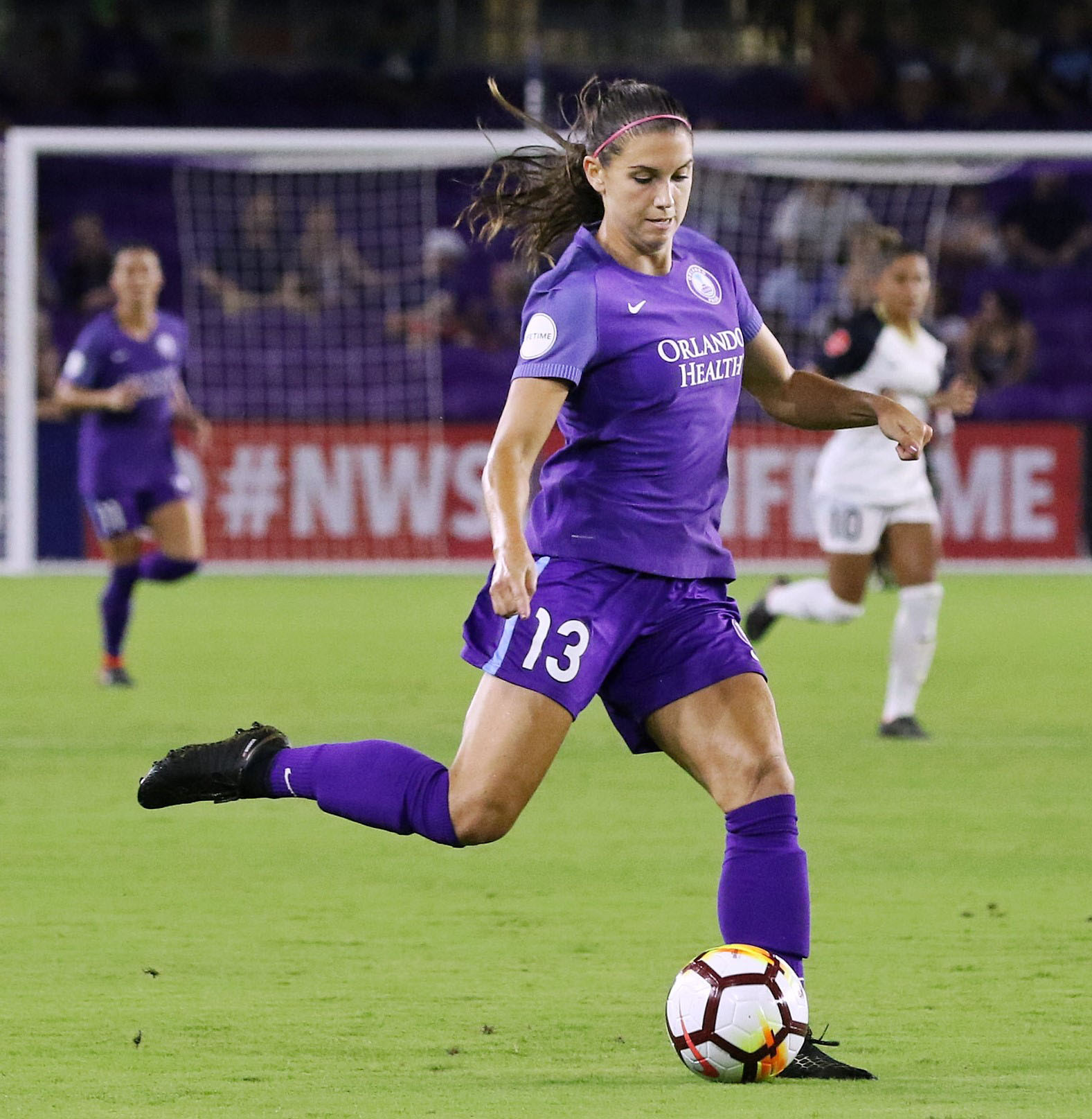 Alex Morgan with the Orlando Pride of the NWSL on May 23, 2018.